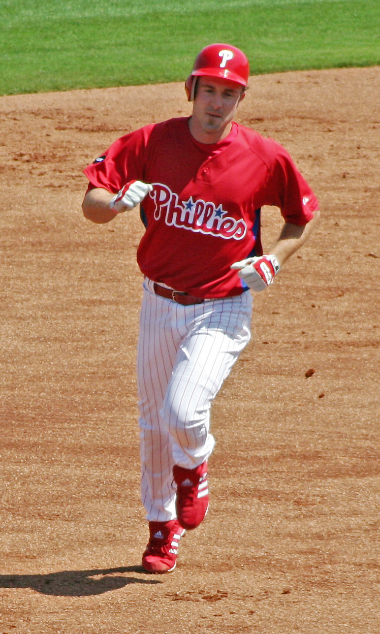 Chase Utley rounding the bases after hitting a first inning home run off the Detroit Tigers during Spring Training.